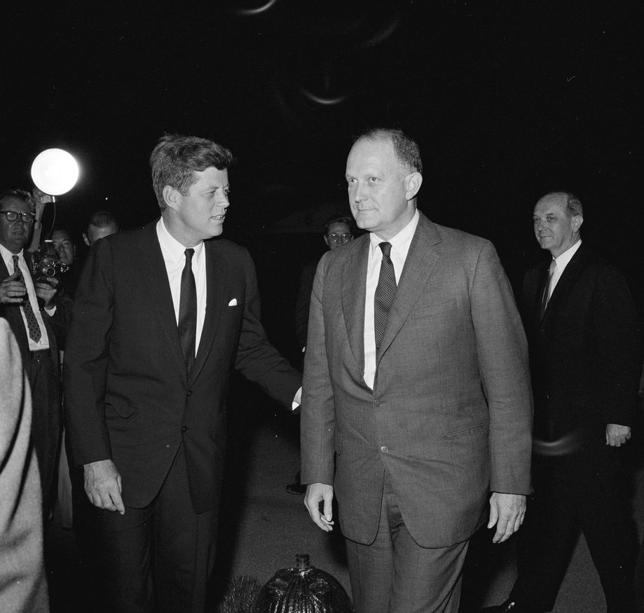 President John F. Kennedy speaks with Secretary of the Treasury C. Douglas Dillon upon the return of the delegation to the Inter-American Economic and Social Conference at Punta del Este on the South Lawn, White House, Washington, D.C. Secretary of State Dean Rusk looks on from behind Secretary Dillon.